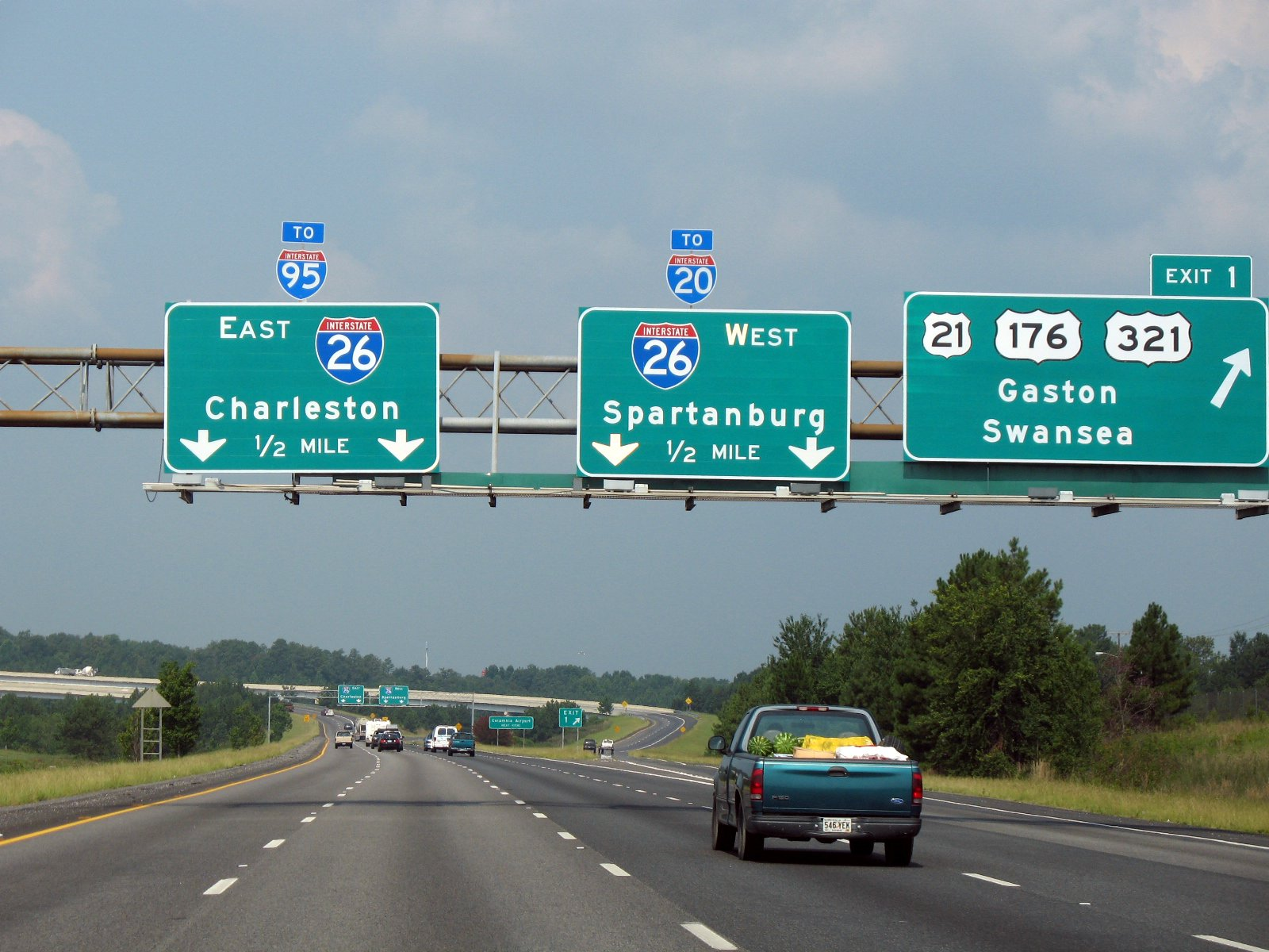 The southern terminus of I-77 at I-26 in Columbia, South Carolina. Photo taken by me.